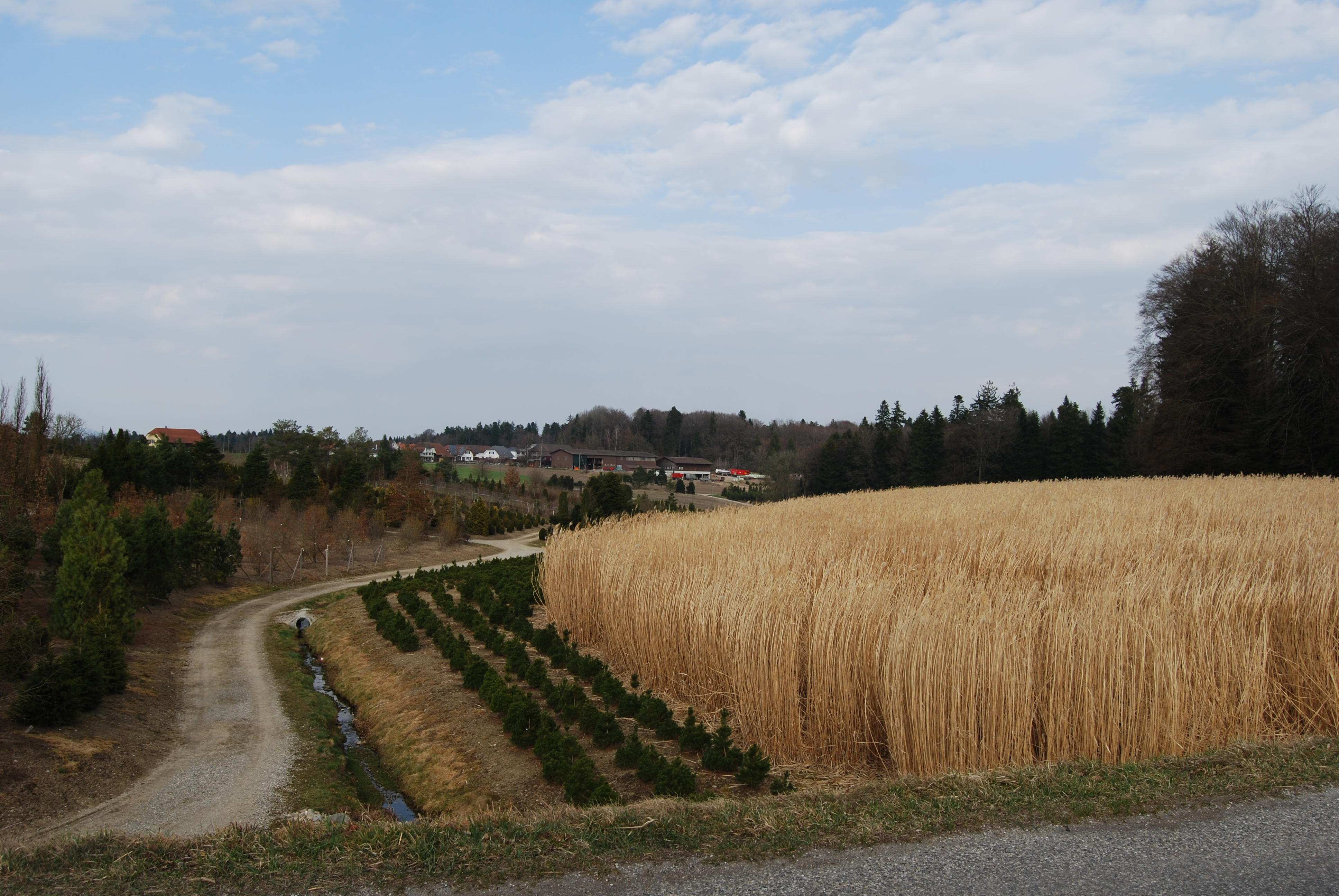 Thunstetten, canton of Bern, SwitzerlandEsperanto: Thunstetten, Kantono Berno, Svislando